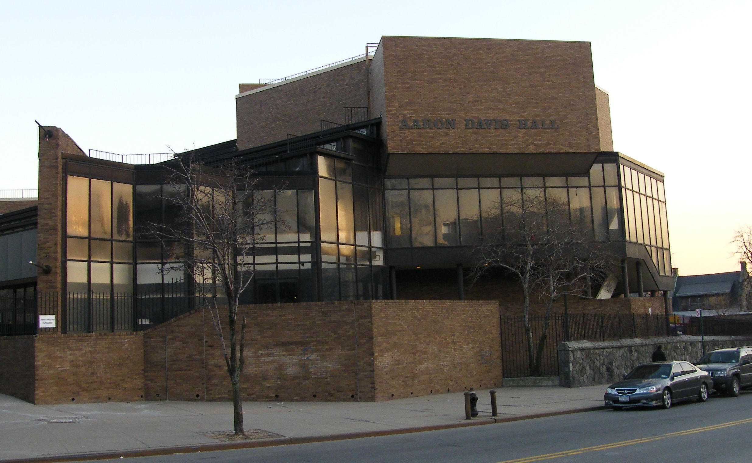 Aaron Davis Hall at CUNY in New York City